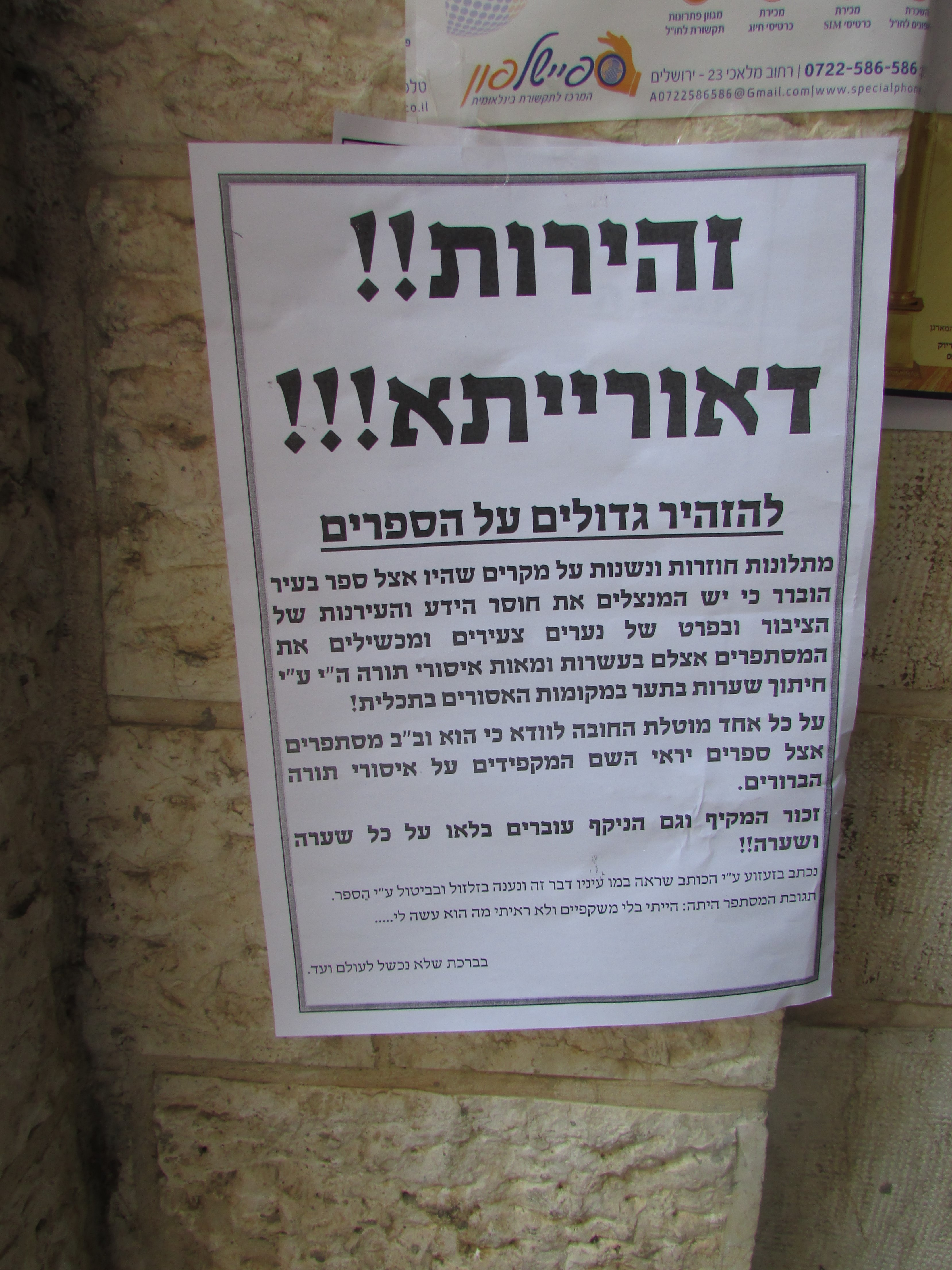 Forbidden haircut warning Pashkavil